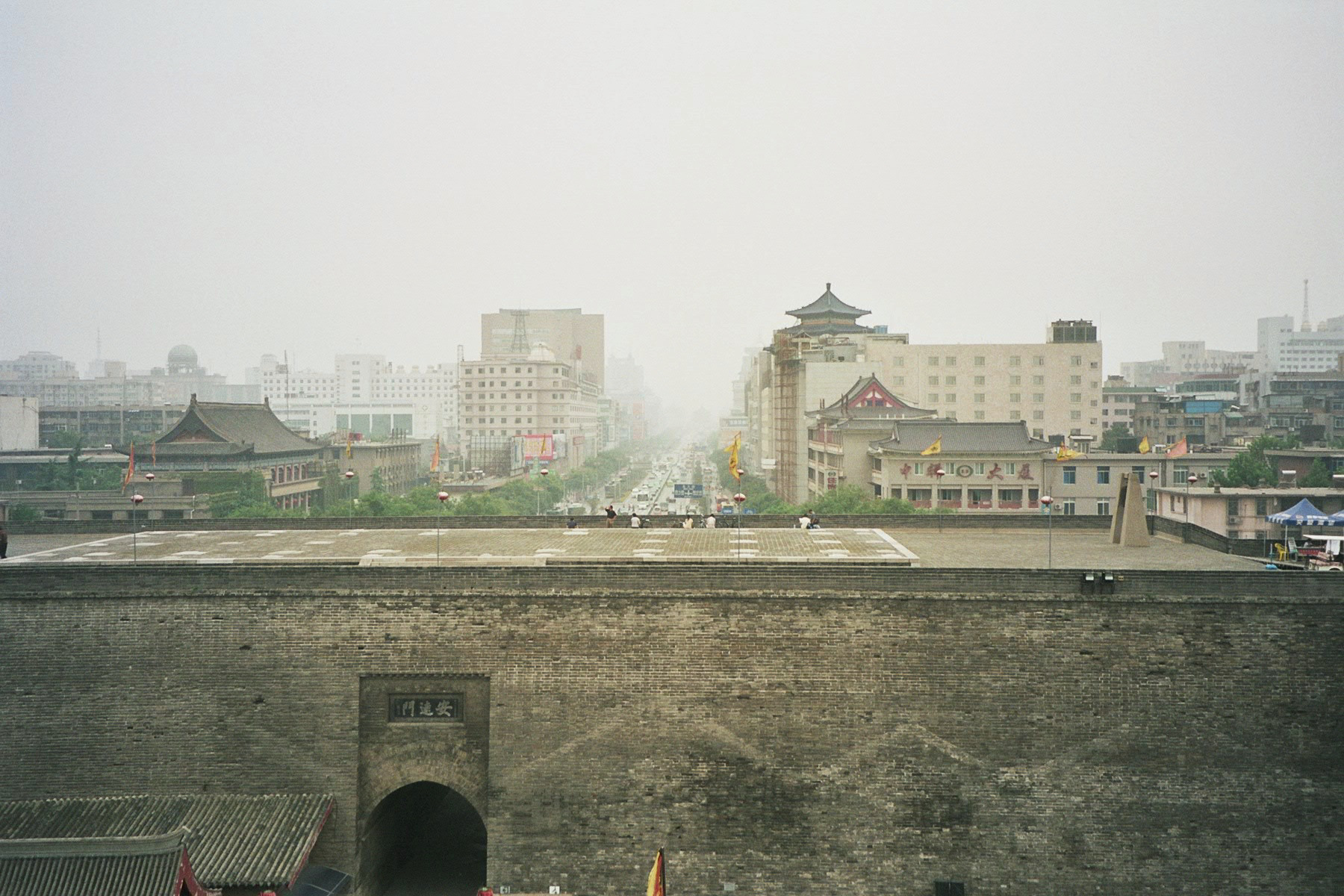 View from City Wall to Downtown in Xi'an, China, September 2006.